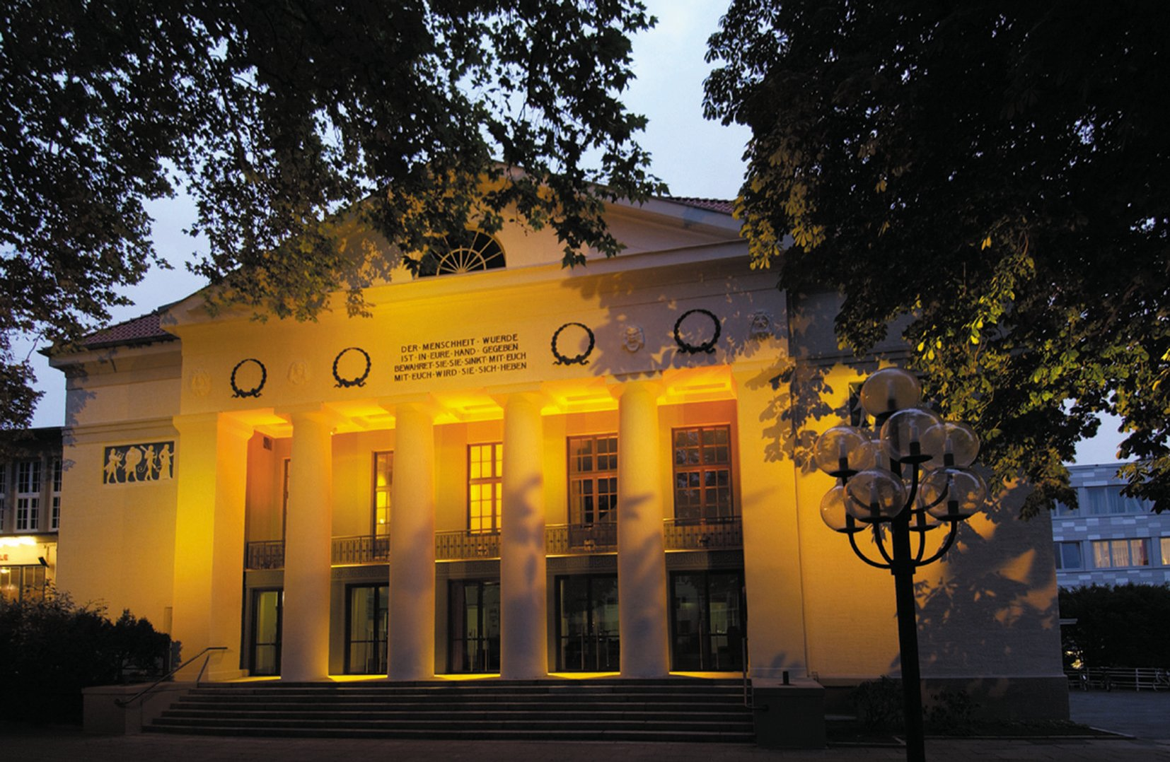 The theate of Hildesheim by night